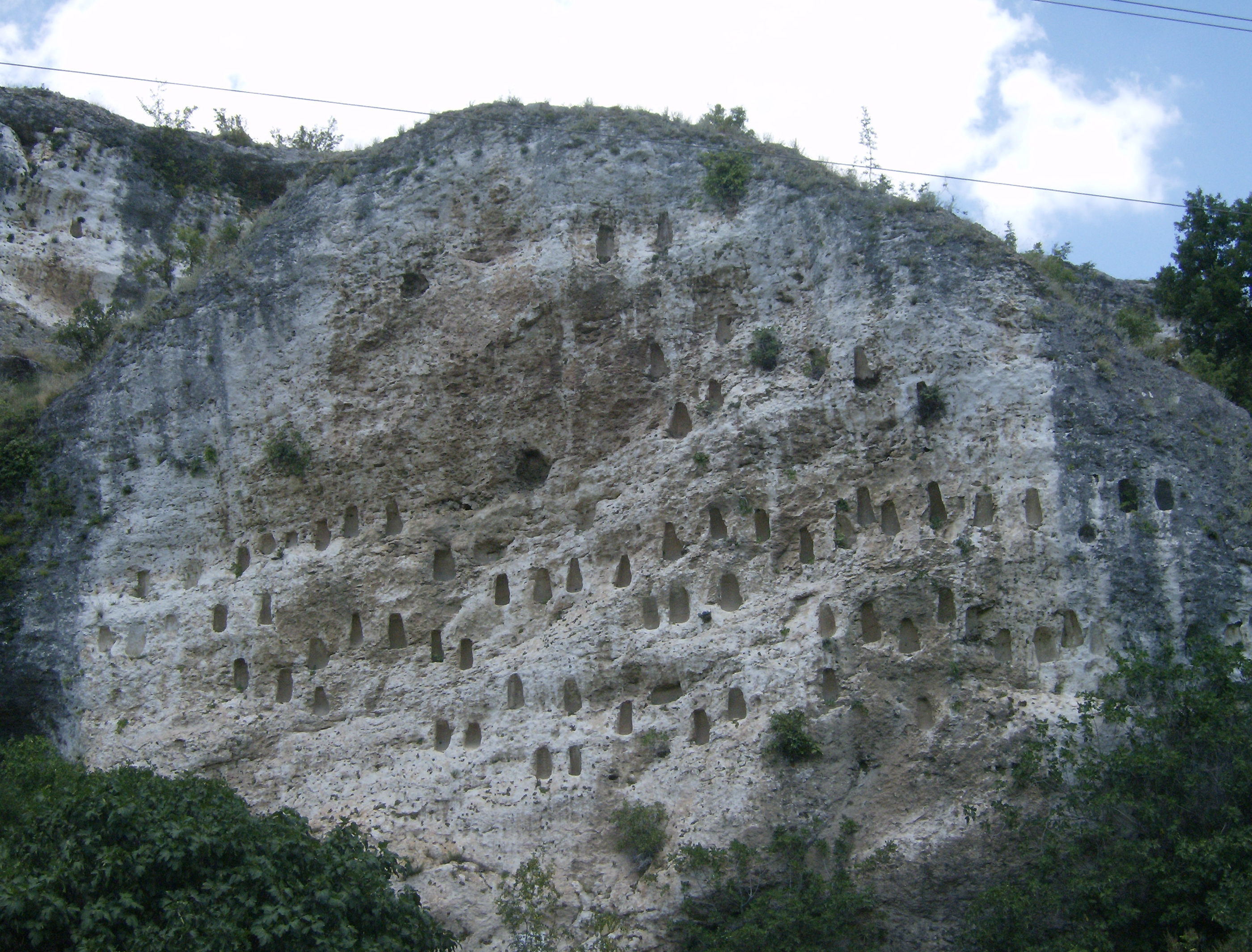 Thracian rock niches near Dolno Cherkovishte